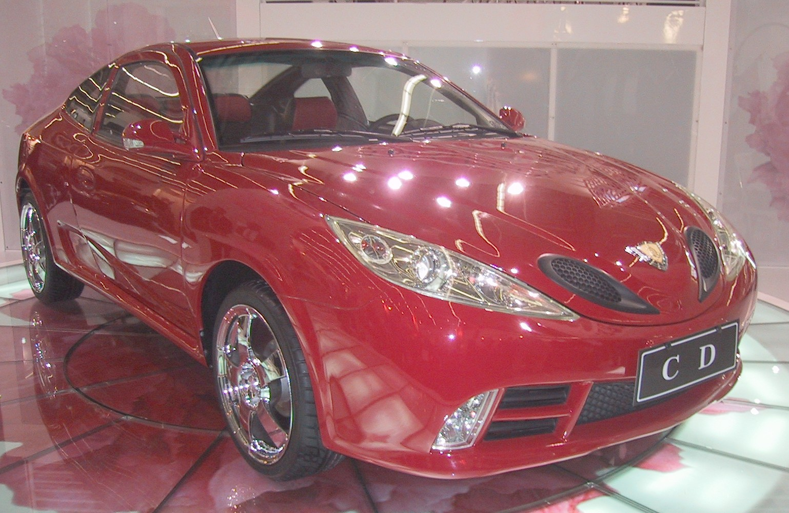 Chinese car manufaturer Geely at the IAA 2005 showing the model China Dragon (Geely CD).